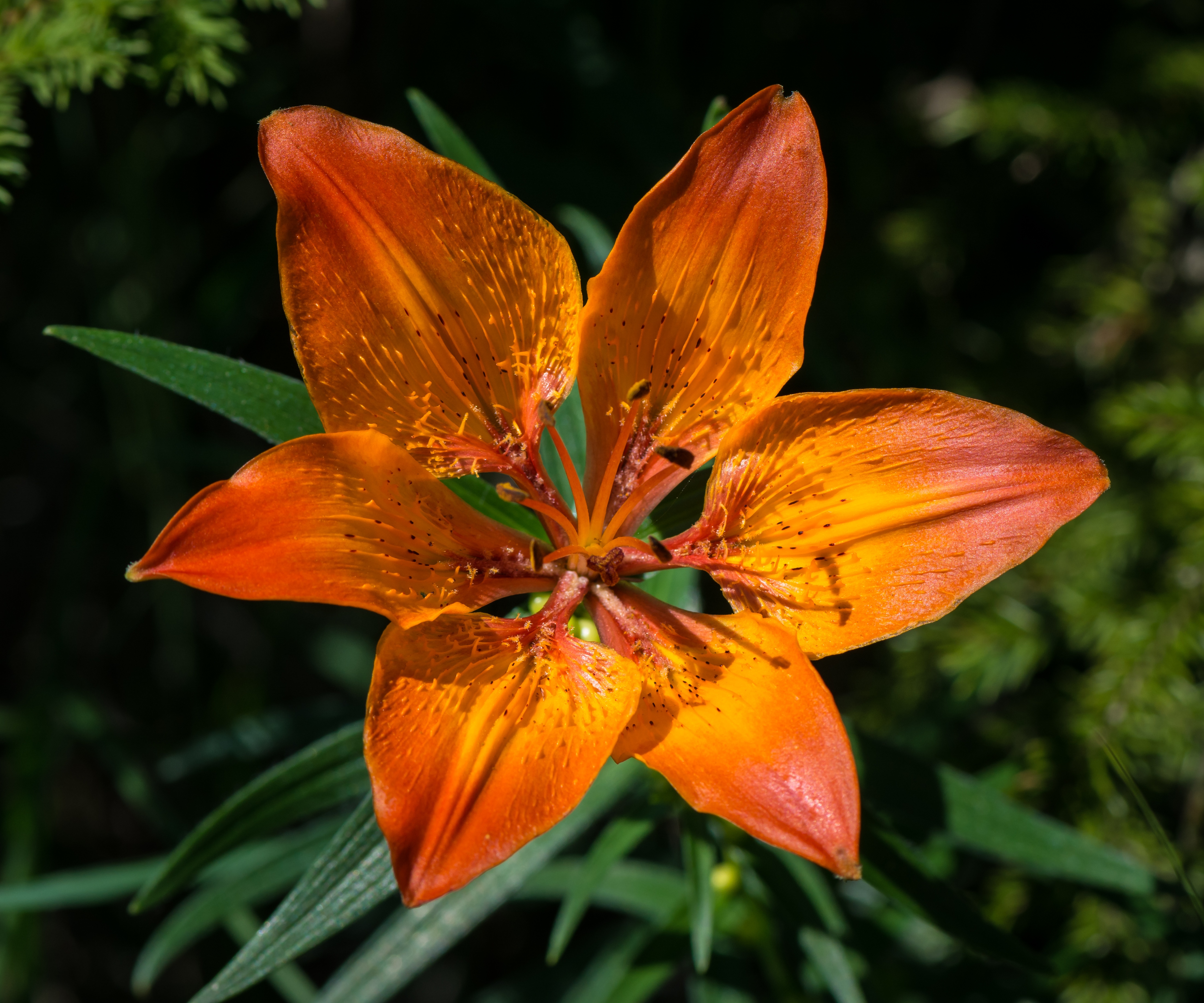 Fire lily (Lilium bulbiferum var. bulbiferum) found near Hagengut, Mitterbach am Erlaufsee, Lower Austria